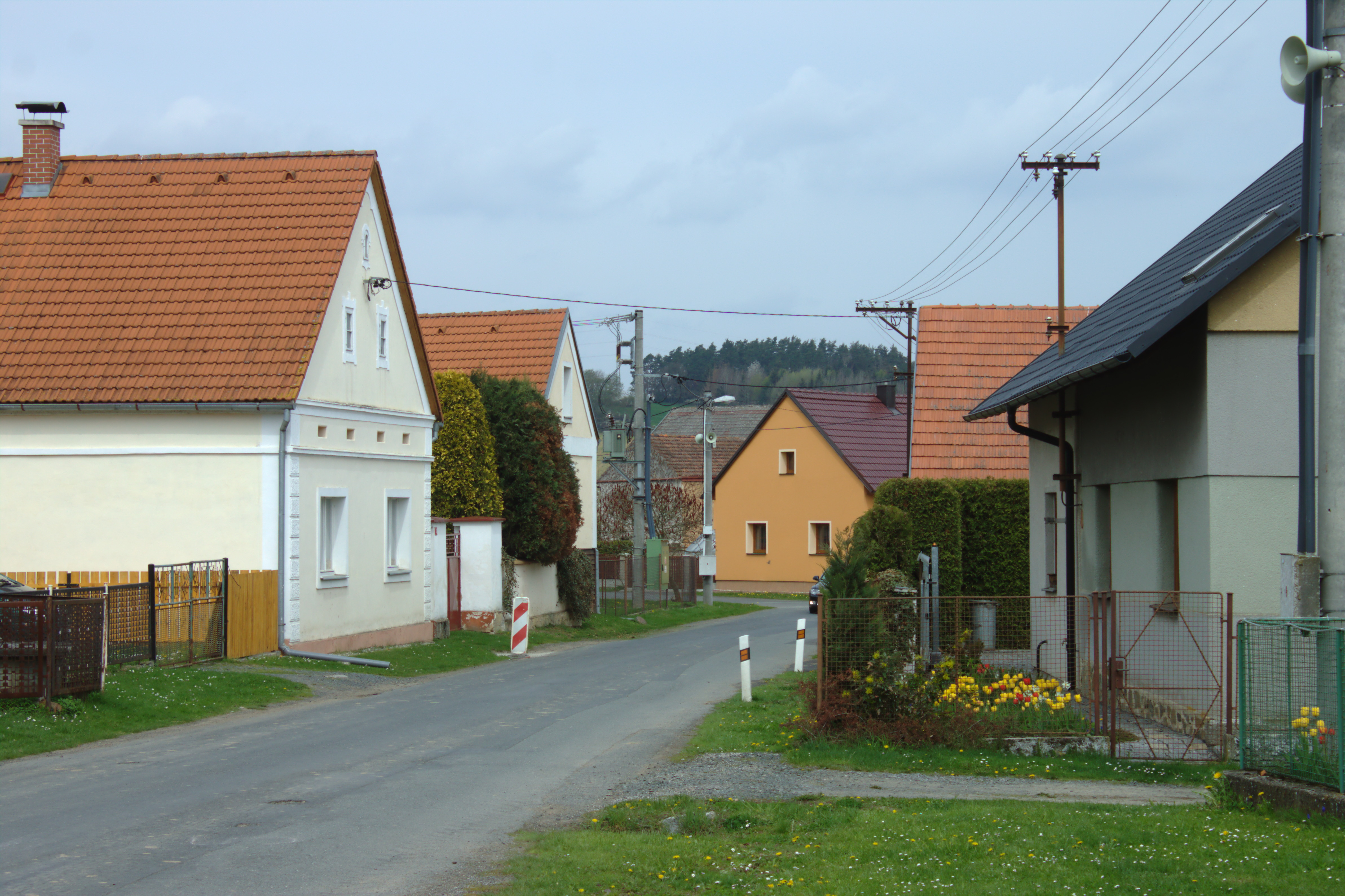 Buildings at the main road in the village of Hříchovice, Plzeň Region, CZ